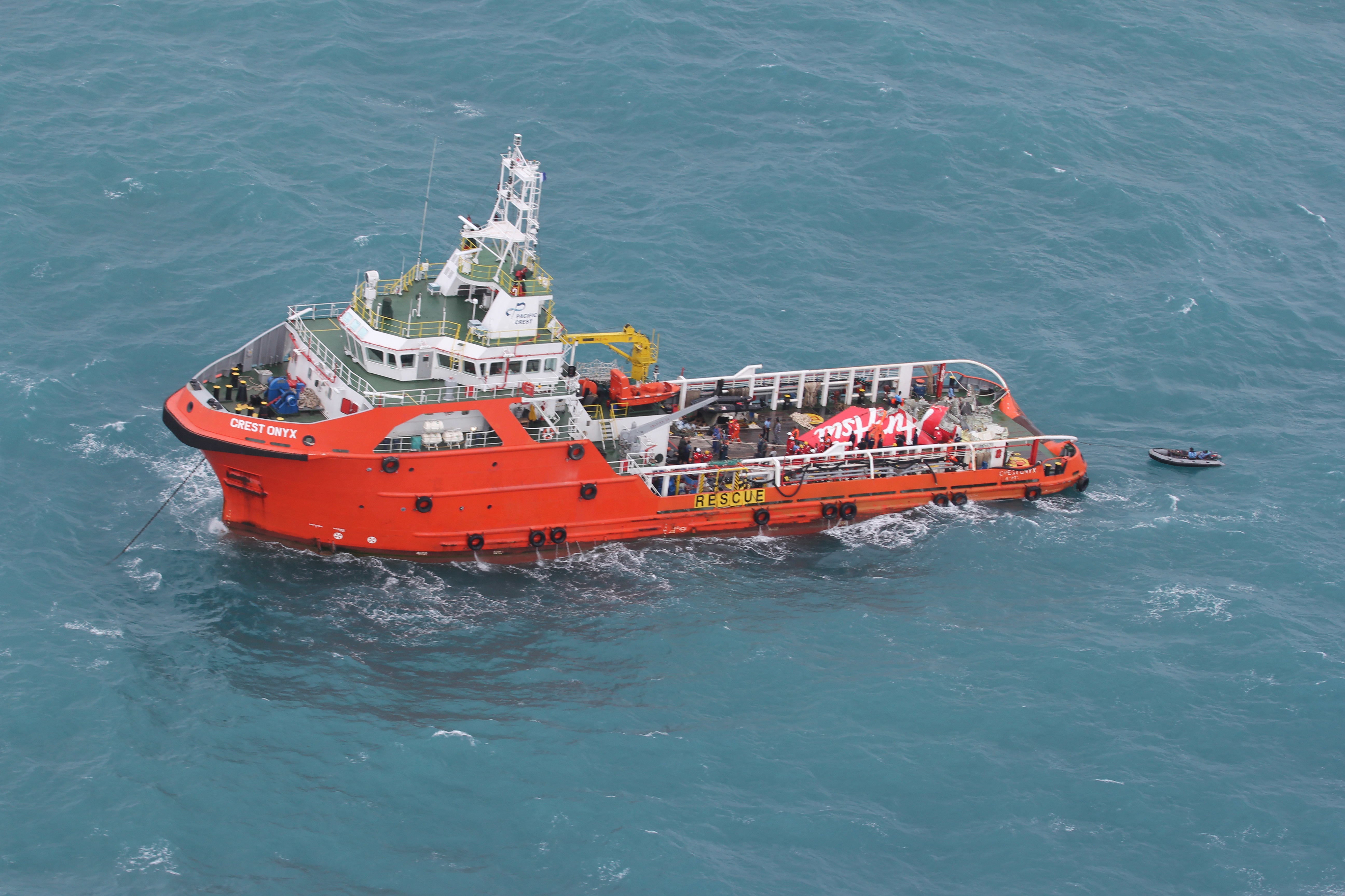 JAVA SEA (Jan. 10, 2015) An MH-60R Seahawk helicopter assigned to littoral combat ship USS Fort Worth (LCS 3) flies over Crest Onyx, an offshore supply ship that lifted the tail of Air Asia Flight QZ8501 from the sea floor. Fort Worth and guided missile destroyer USS Sampson (DDG 102) are supporting Indonesian-led efforts to locate the downed aircraft and are currently operating near where the tail section was discovered. (U.S. Navy photo by Mass Communication Specialist 2nd Class Antonio P. Turretto Ramos)